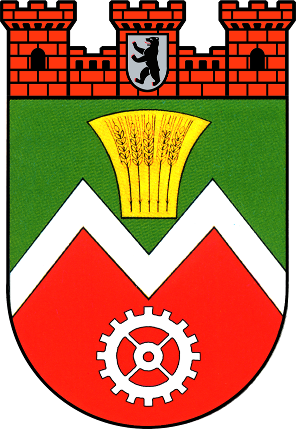 Coat of arms of Marzahn, a former boroughs of Berlin.